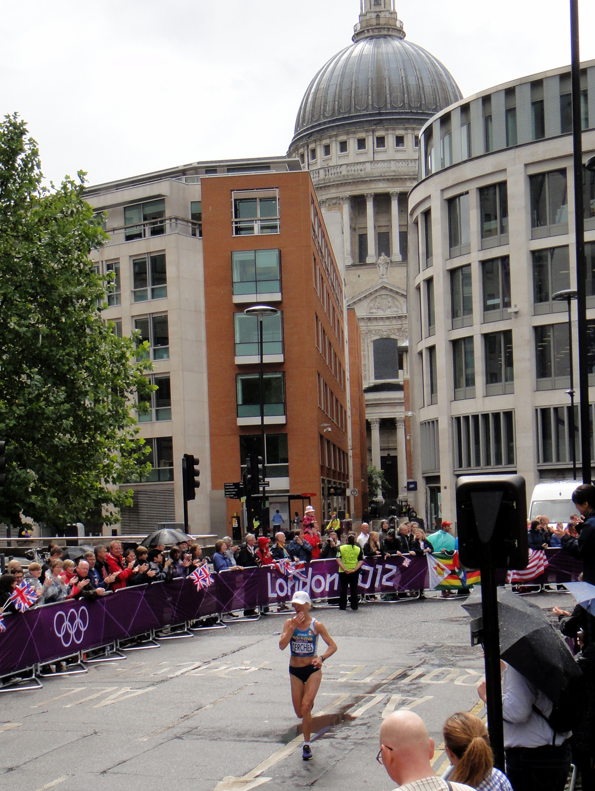 Zana Jereb (Slovenia) - London 2012 Women's Marathon